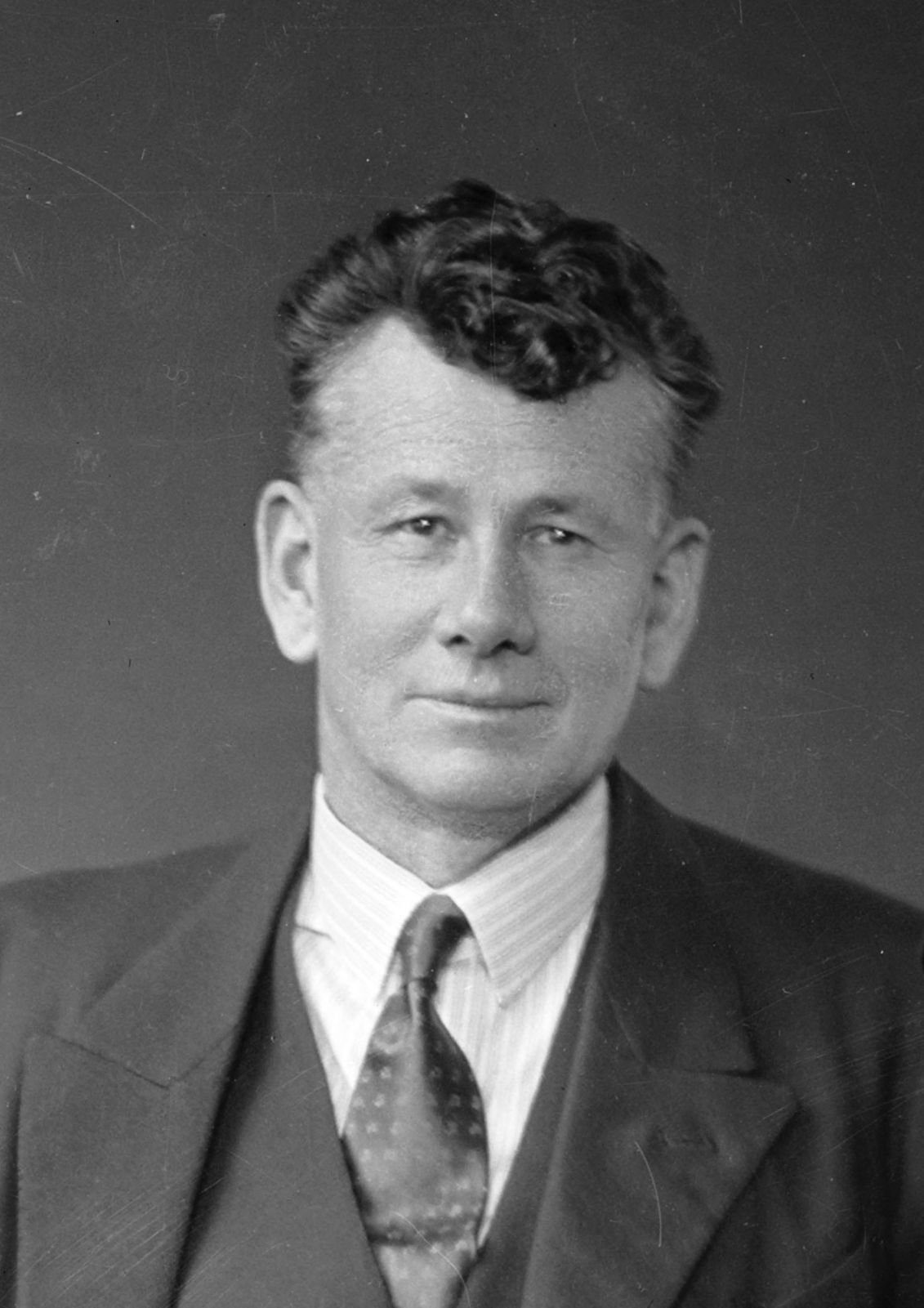 The Honourable Daniel Giles Sullivan photographed in 1936 by S P Andrew Ltd. Giles wears a suit.